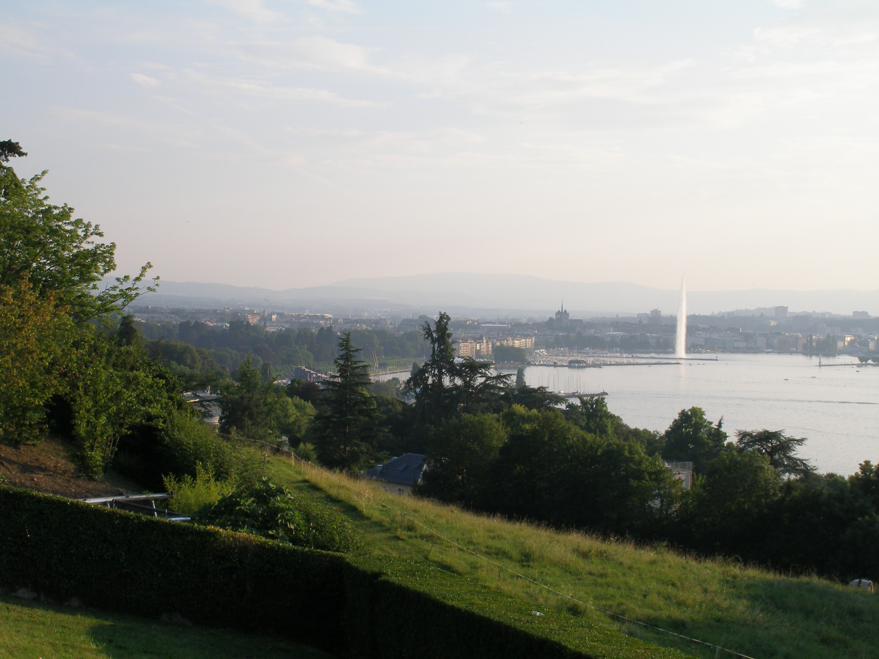 The Villa Diodati in Geneva, Switzerland 2008.07.27, view 4 out of 6